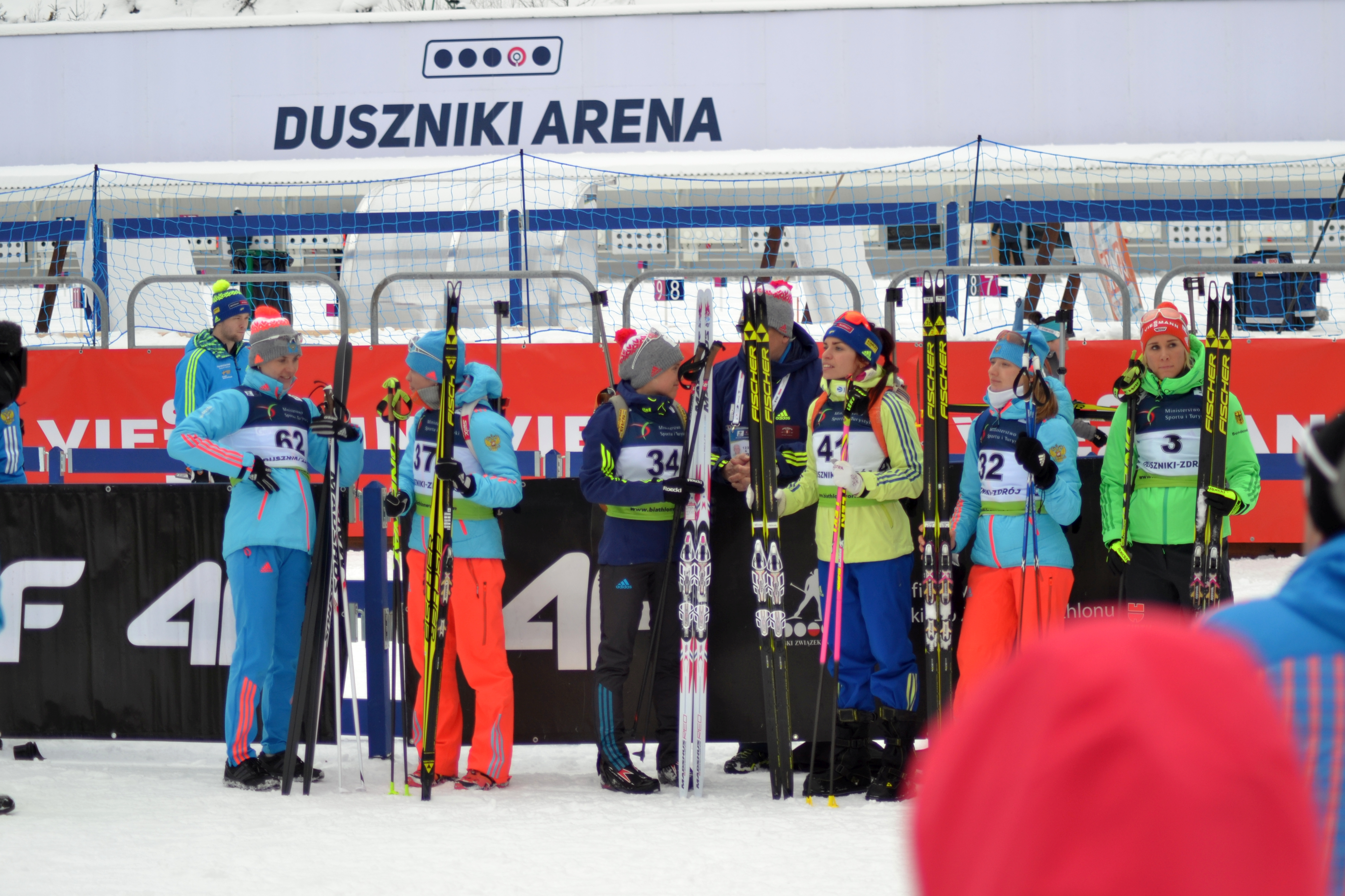 Open European Championships Biathlon 2017, Individual Women's race, held on January 25th.